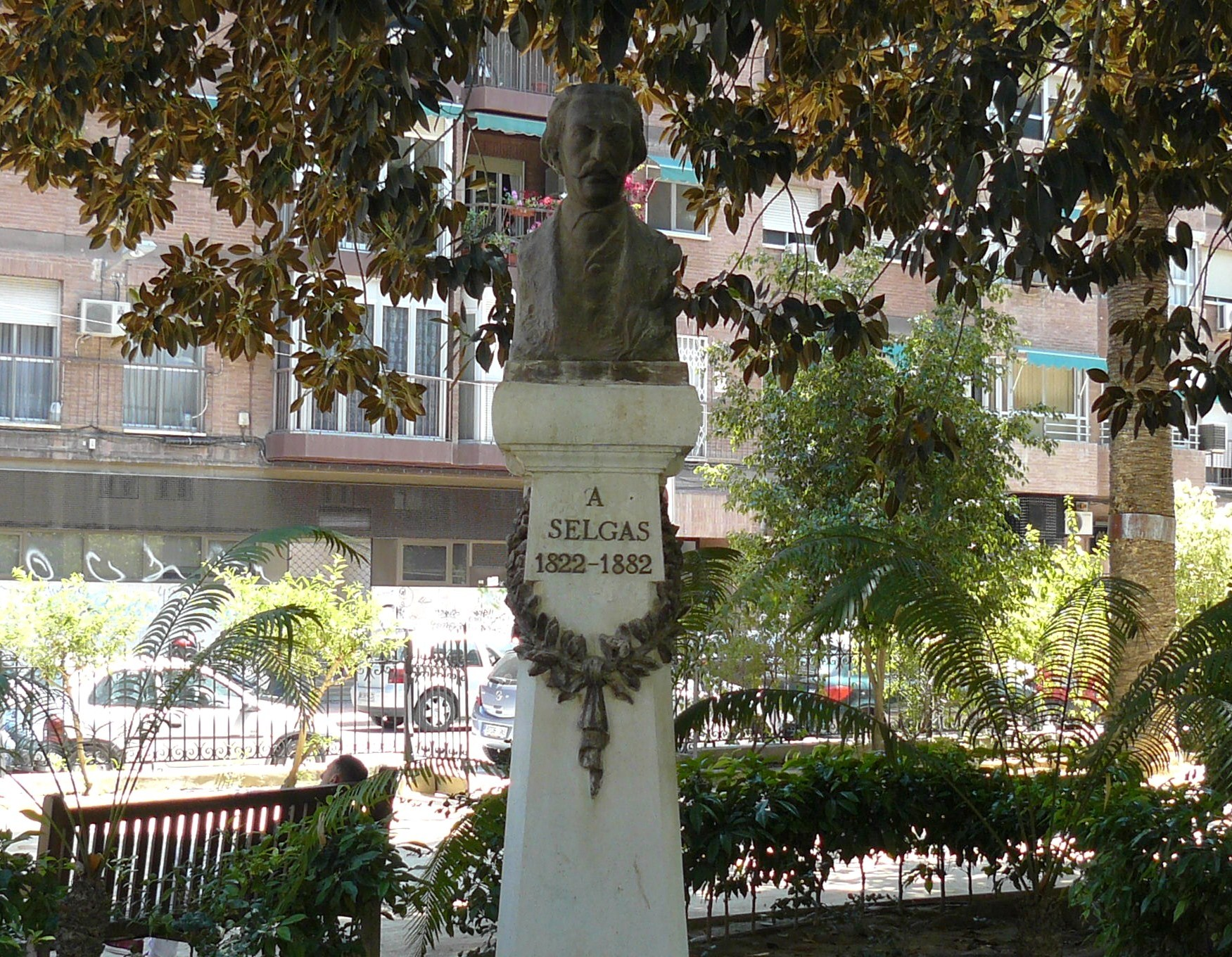 Jose Selgas - Monument in Murcia.